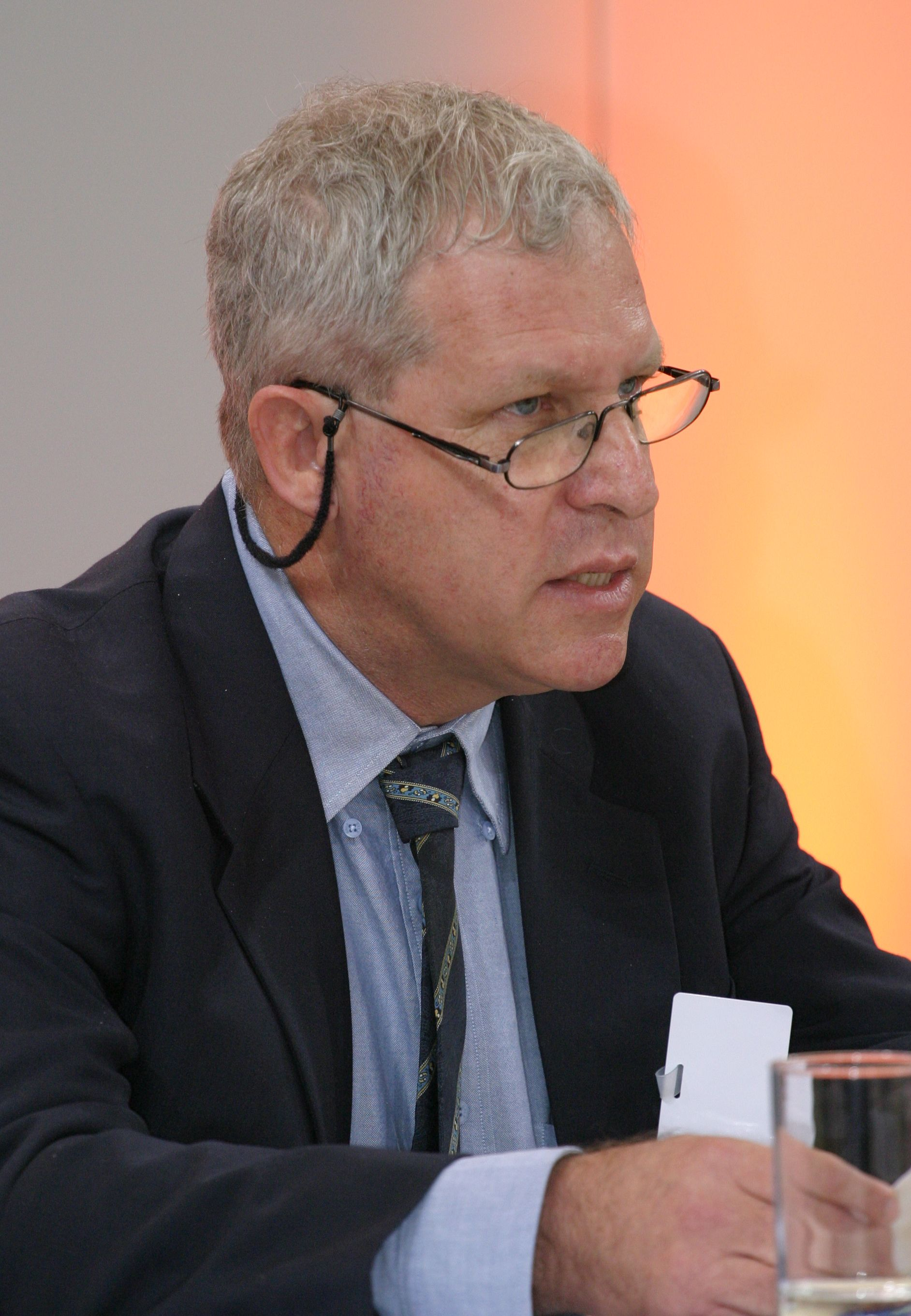 40th Munich Security Conference 2004: Giora Eiland, Director of the National Security Council, State of Israel.